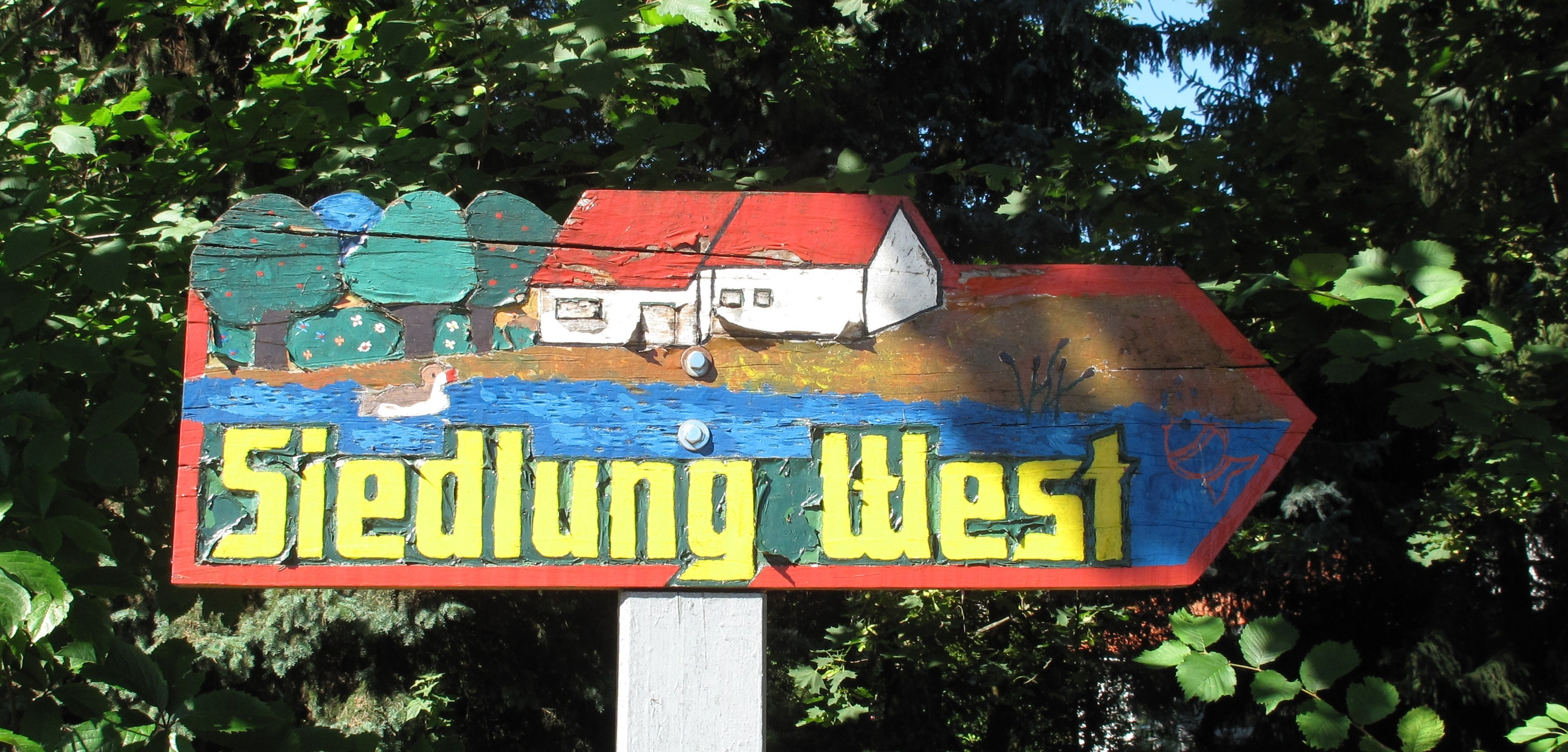 Street sign in Kummersdorf. The village Kummersdorf is a part of the town Storkow, District Oder-Spree, Brandenburg, Germany. The village was first mentioned in 1442 and had on January 1, 2013 507 inhabitants. It is situated in the Dahme-Heideseen Nature Park.